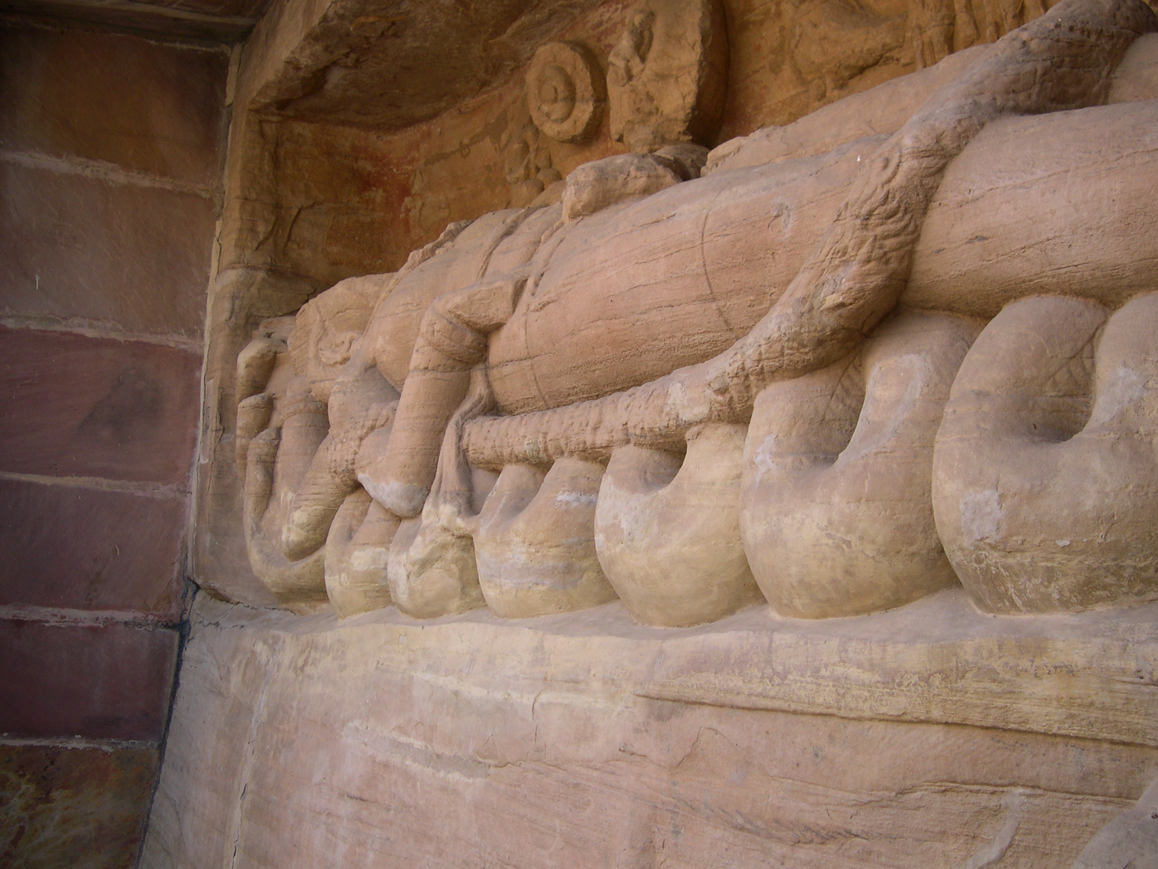 Detail of the recumbent Vishnu, Udayagiri, MP, India